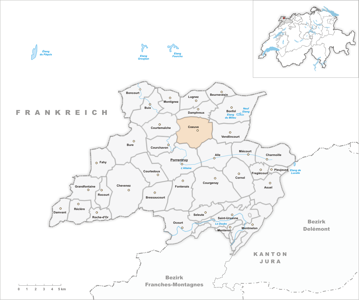 Municipality Coeuve Artist: Tschubby